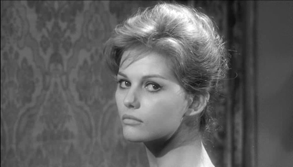 screenshot from the Italian film Il Bell'antonio (1960)